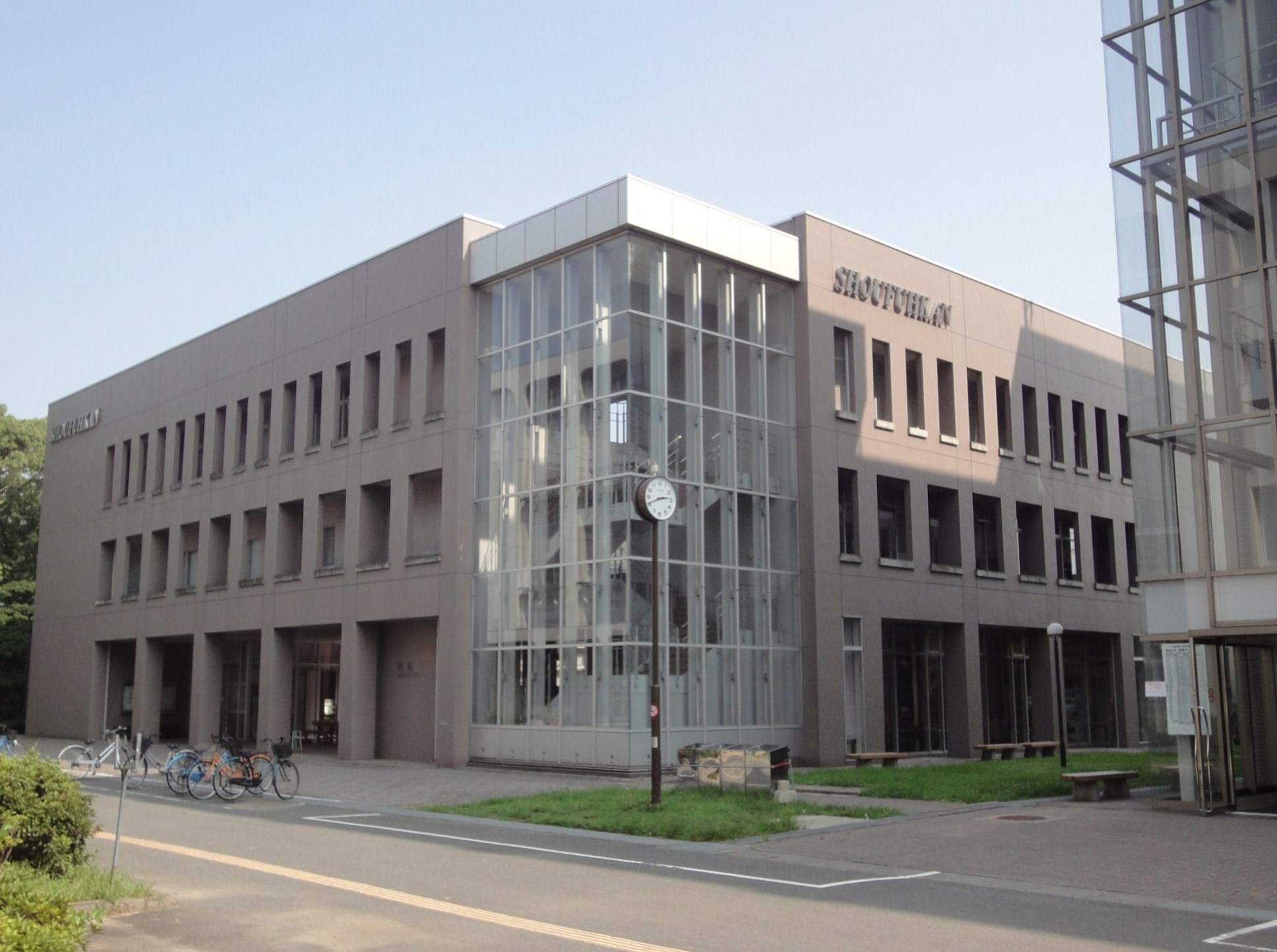 Shofukan (Shofu Hall) of Aichi University, Toyohashi campus.